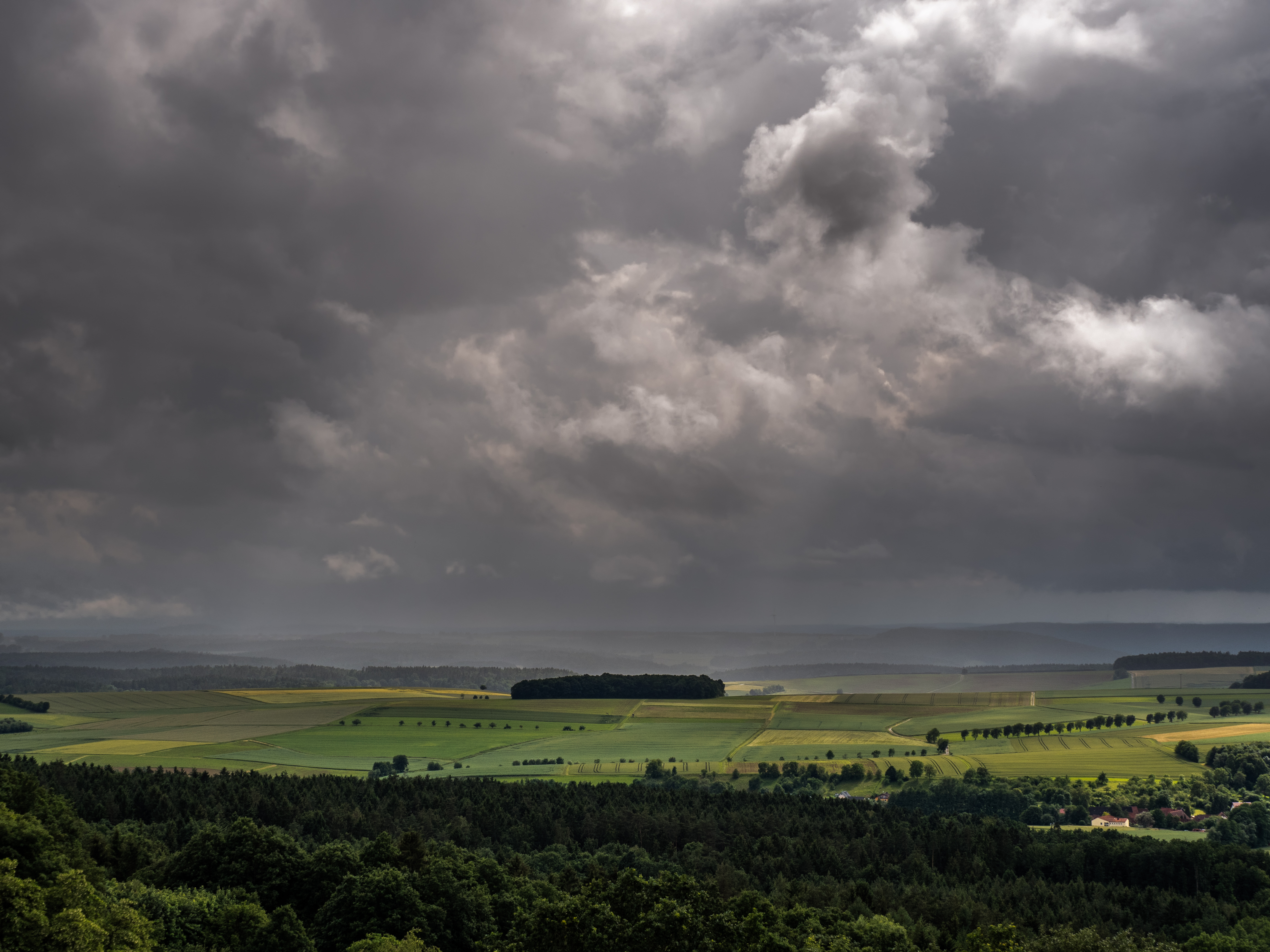 View from the Ansberg near Ebensfeld direction Bamberg